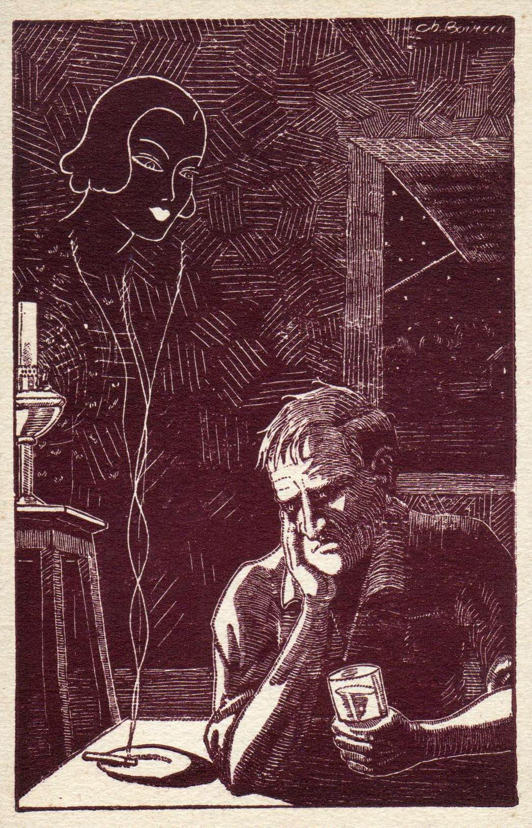 Ch. Boirau, The Spleen (Melancholy). Postcard, c. 1915. Publisher: R. Prudent. Paris.